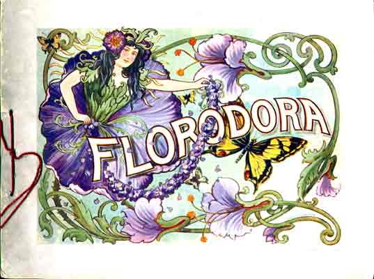 Broadway Souvenir program cover for Florodora, 1900